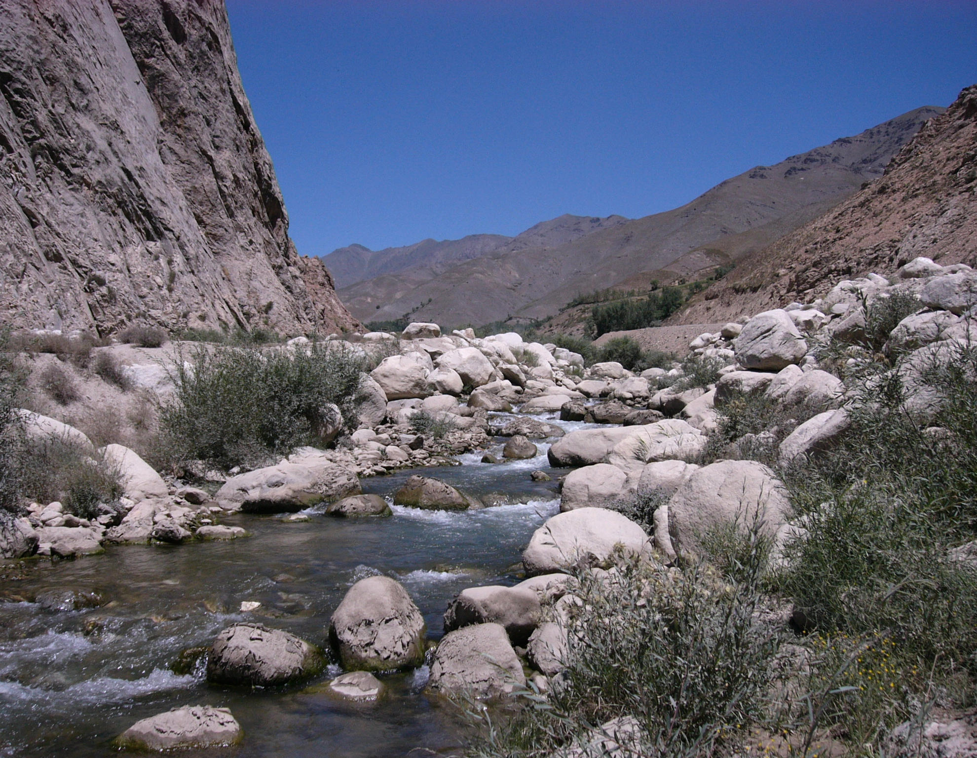 Creek near the road from Kabul to Salang Pass, Afghanistan